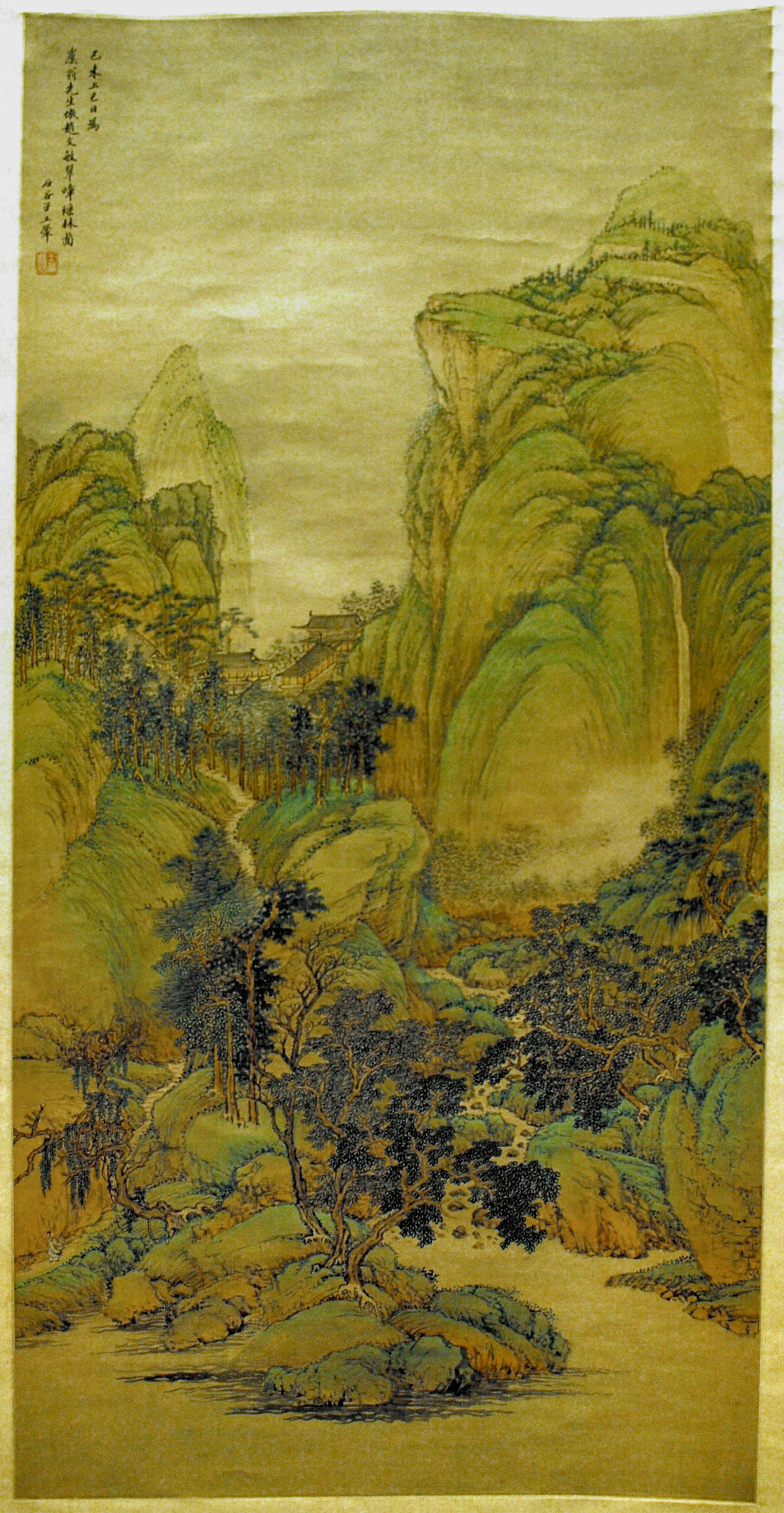 Hanging role painting by Wang Hui: "The Beauty of Green Mountains and Rivers", completed in 1679 AD. On display at the Shanghai Museum.